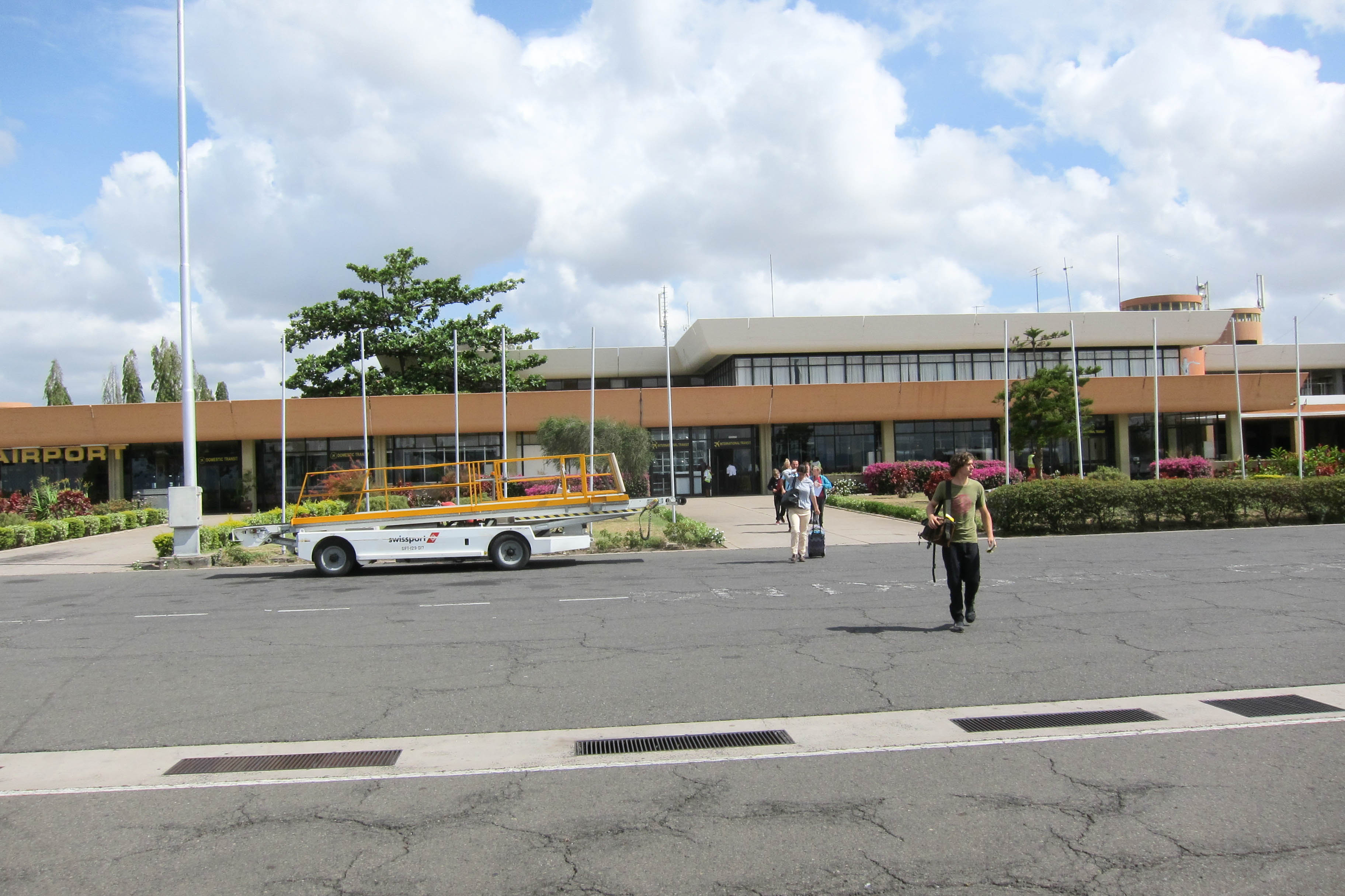 Kilimanjaro Airport Terminal Building